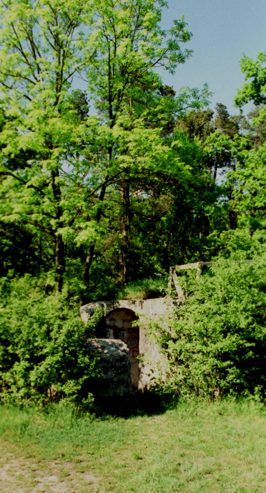 Air raid shelter at the former Concentration Camp St. Valentin, Bunker beim KZ St. Valentin